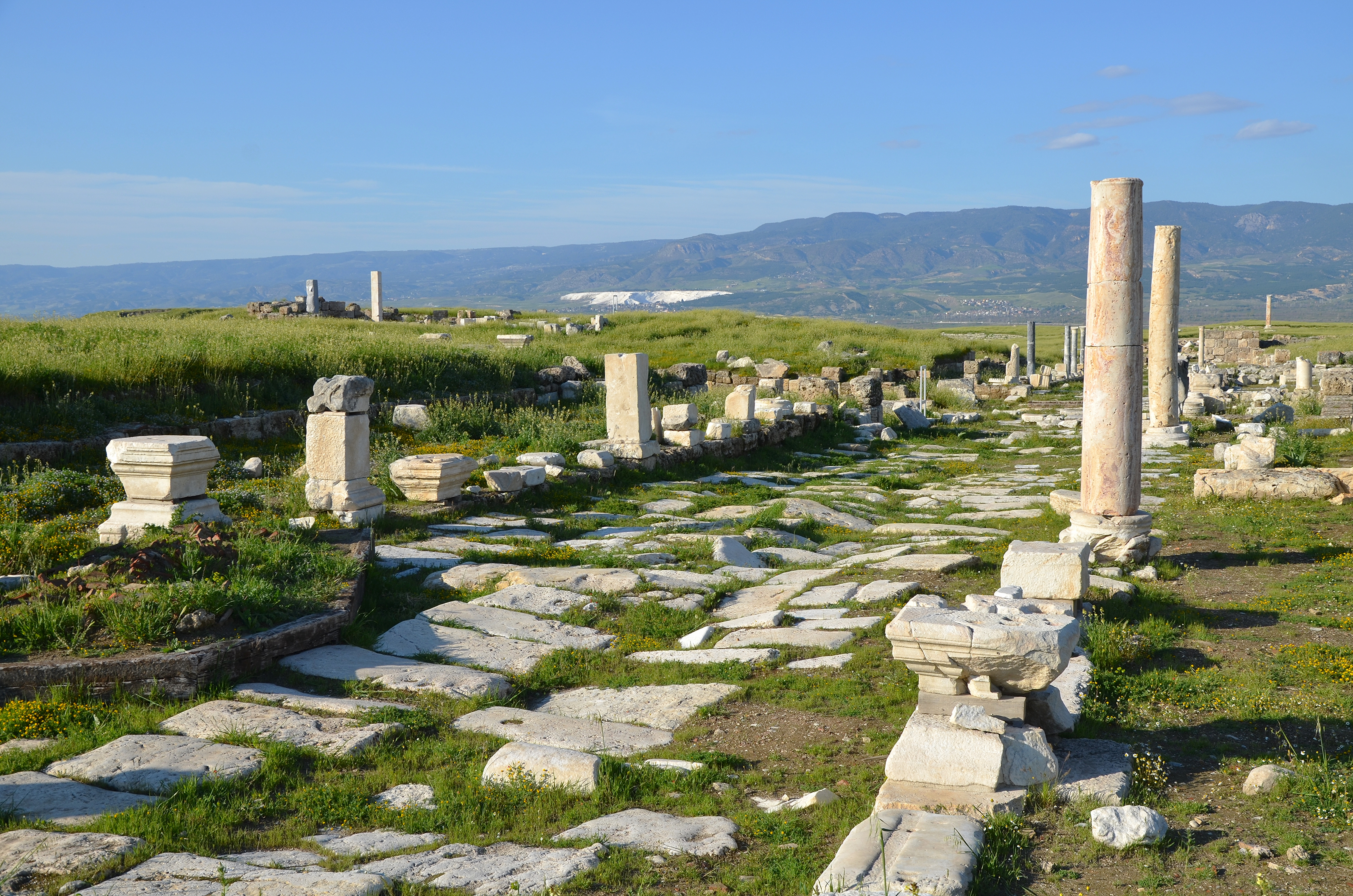 Laodicea on the Lycus, Phrygia, Turkey